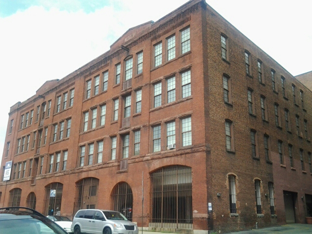 Gandy Belting Company Building This photo was uploaded with Wiki Loves Monuments mobile 1.2.1 (Android).